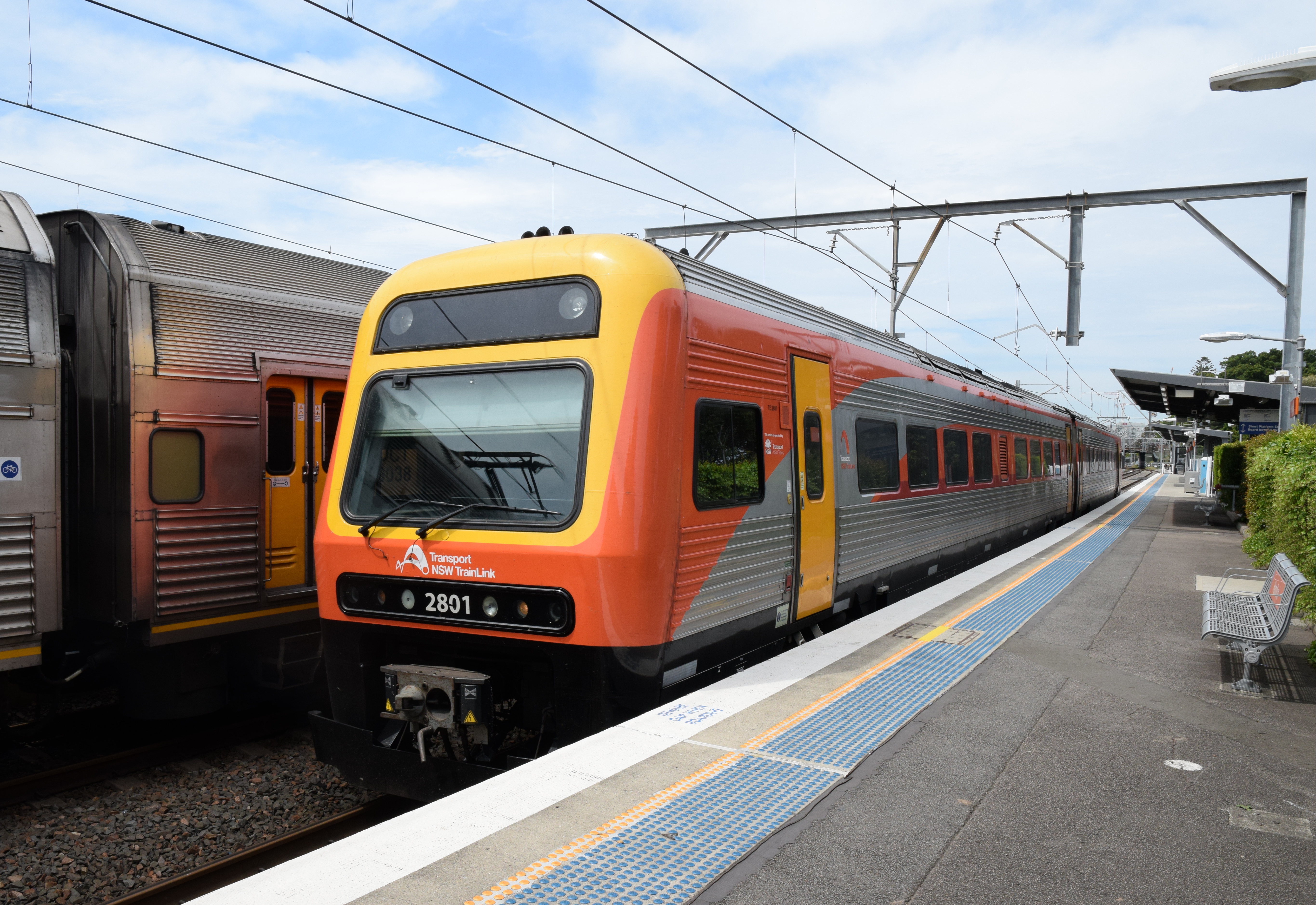 NSW TrainLink 'Endeavour Railcar' 2-car DMU Nos.2801/2851 on a Maitland - Newcastle Interchange service at Hamilton Station, 3 October 2018.